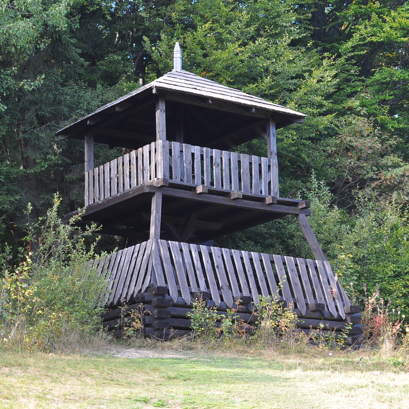 Observation tower in the Beskyd pass